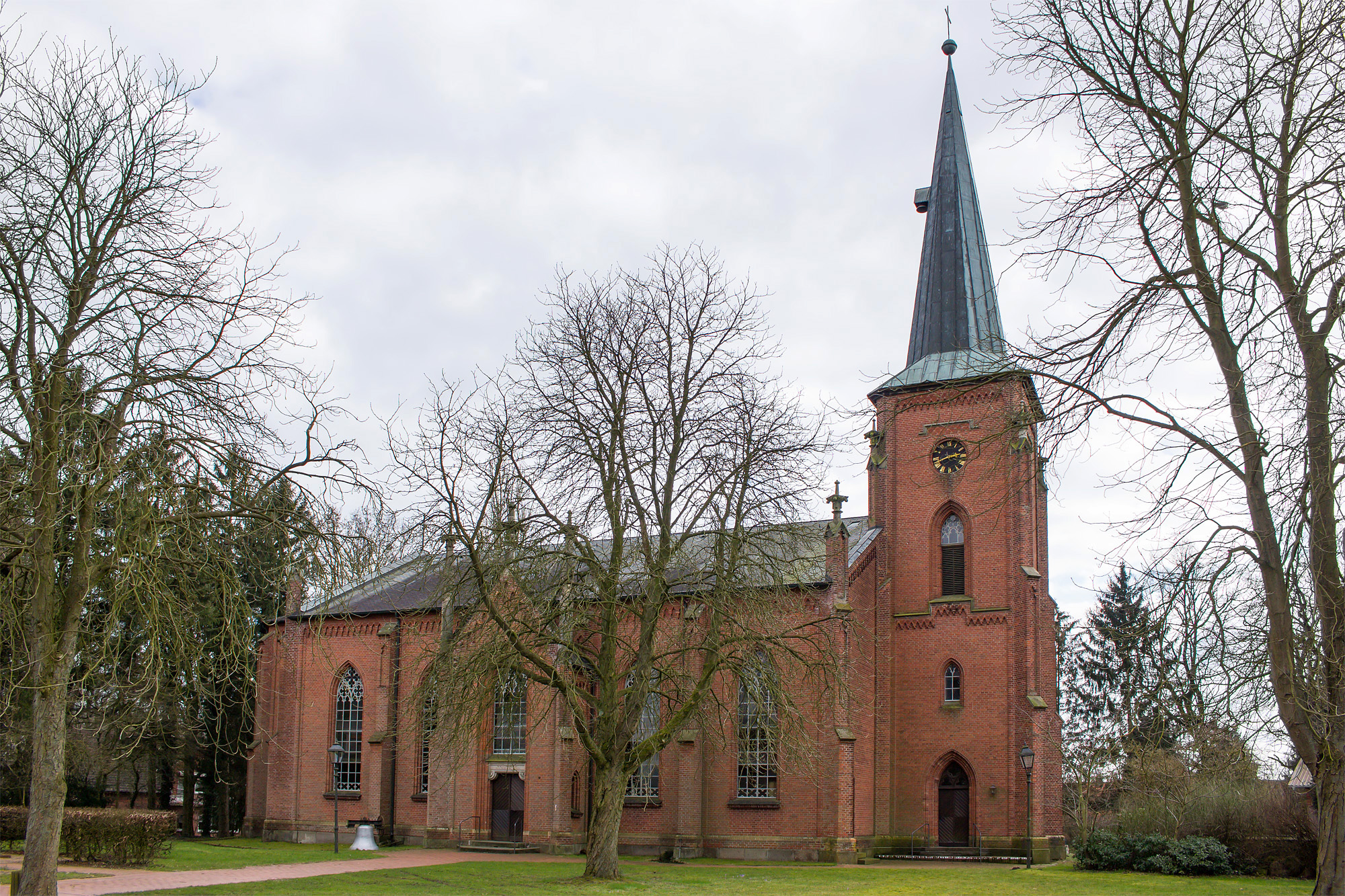 Church St. John in the village Rosche (northern Germany).